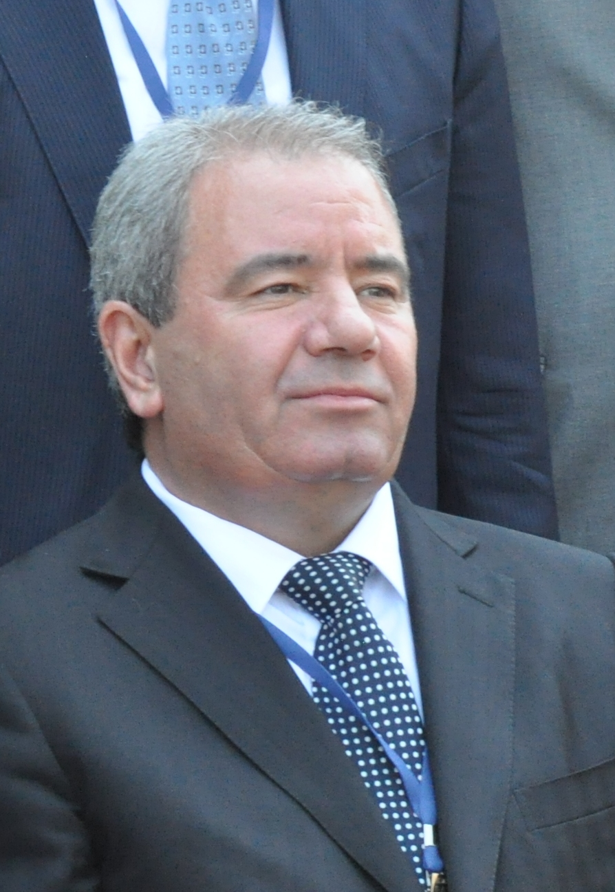 Azerbaijan minister of communications Ali Abassov